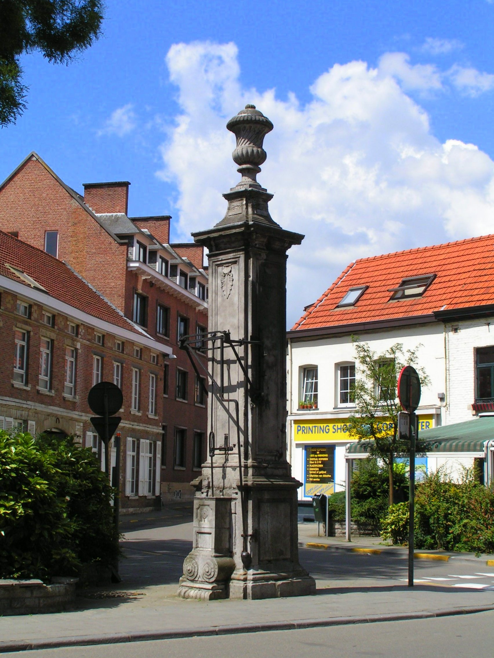 Village pump of 1797, Leuven, Belgium